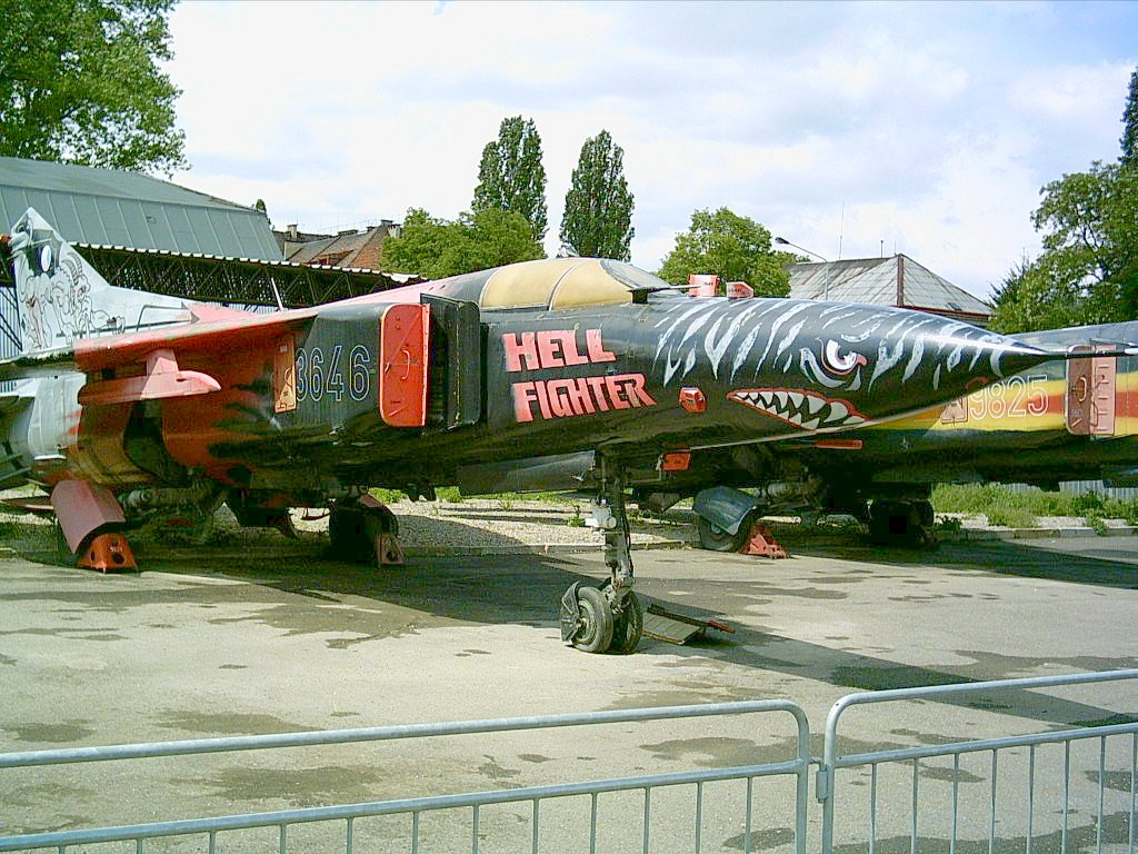 MiG-23MF , Kbely museum, Prague, Czech Republic